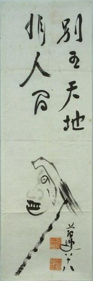 Soho Tokutomi's self-portrait at the age 88. With his aphorism, signature, seal and age (88). 1951-1952.